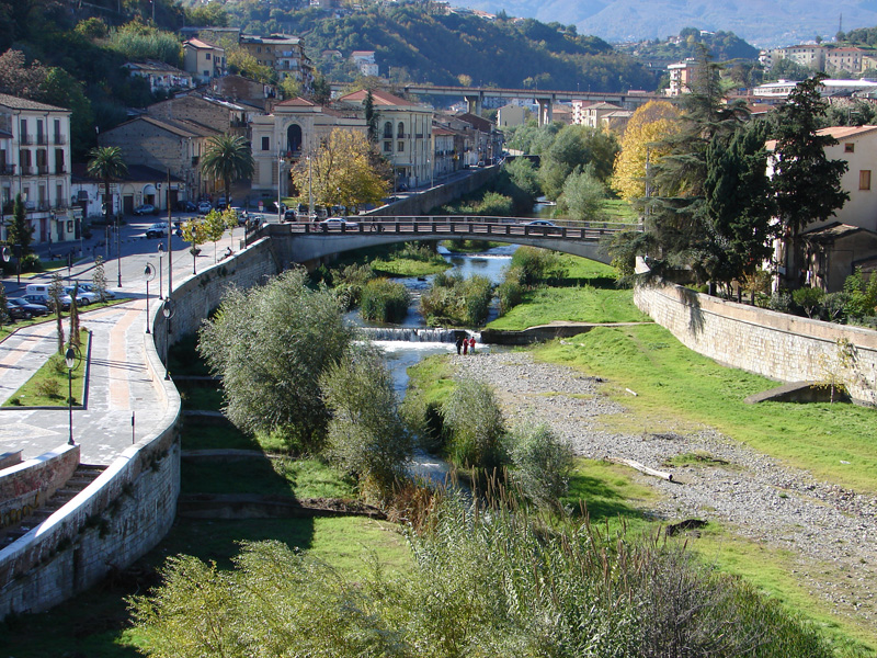 The river Busento at Cosenza, just before its confluence with the river Crati.